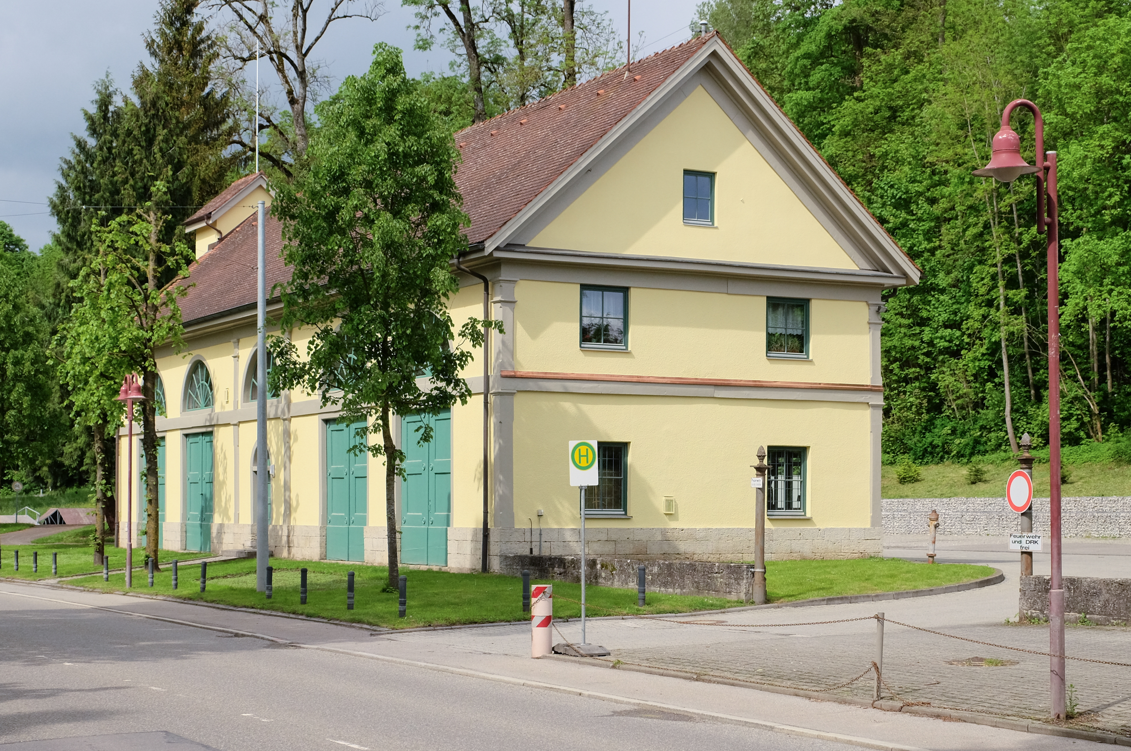 Fire Station Krauchenwies, former depot, district Sigmaringen, Baden-Württemberg, Germany